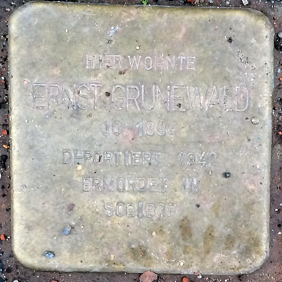 Stolperstein - Stumbling Stone in Nettetal, NRW, Germany Ernst Grunewald